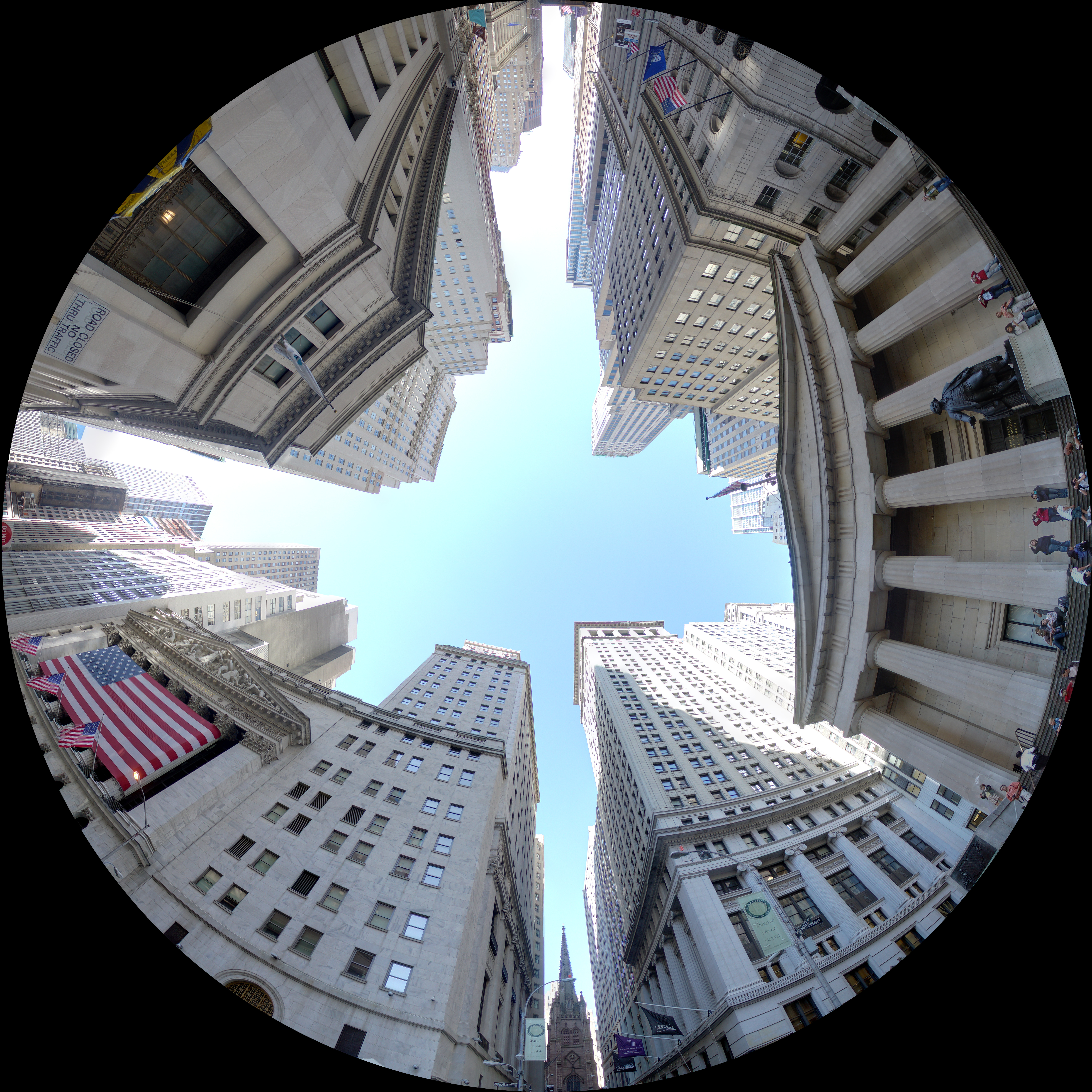 Please, have this description accessible to all by translating it in different languages.